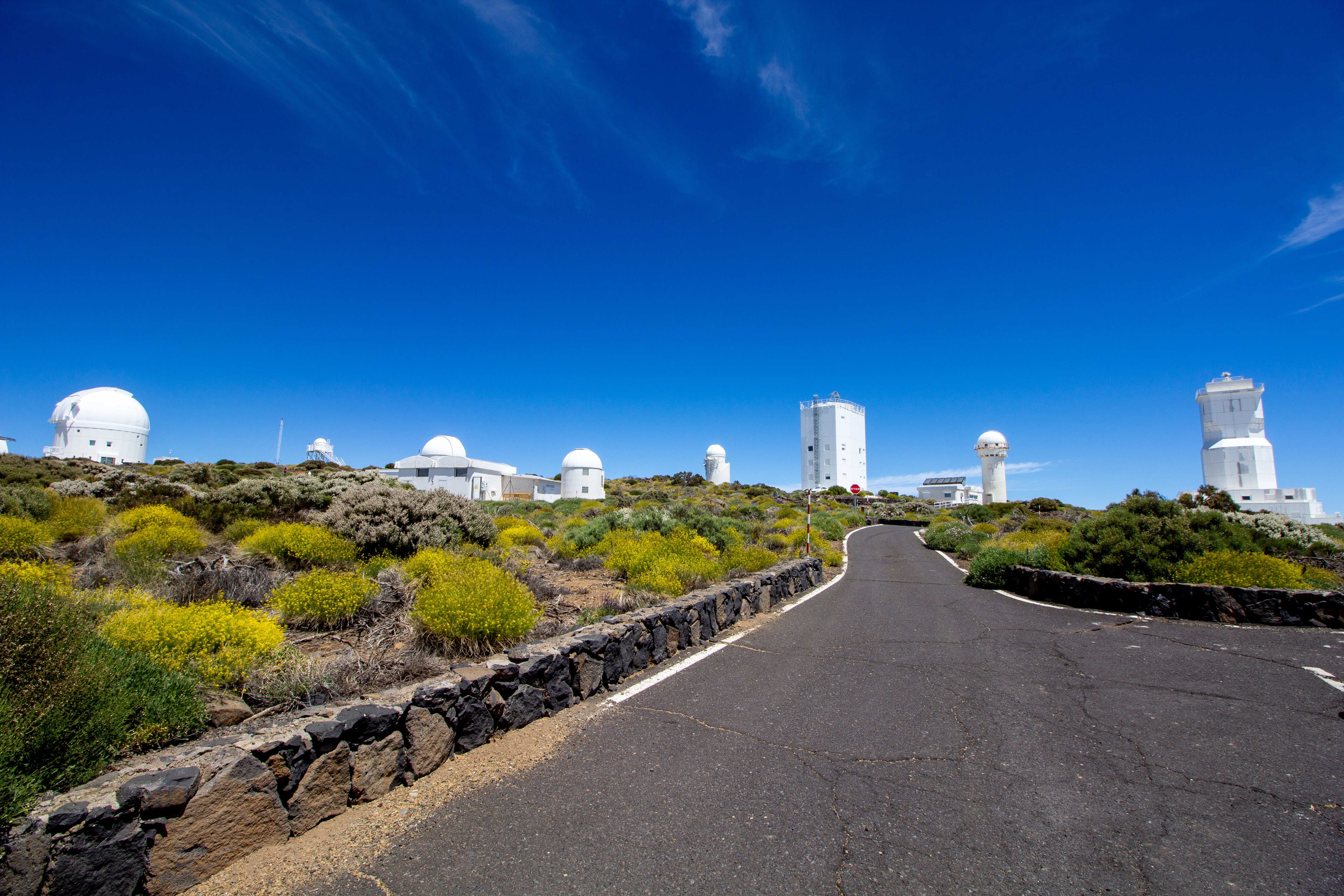 At Tenerife